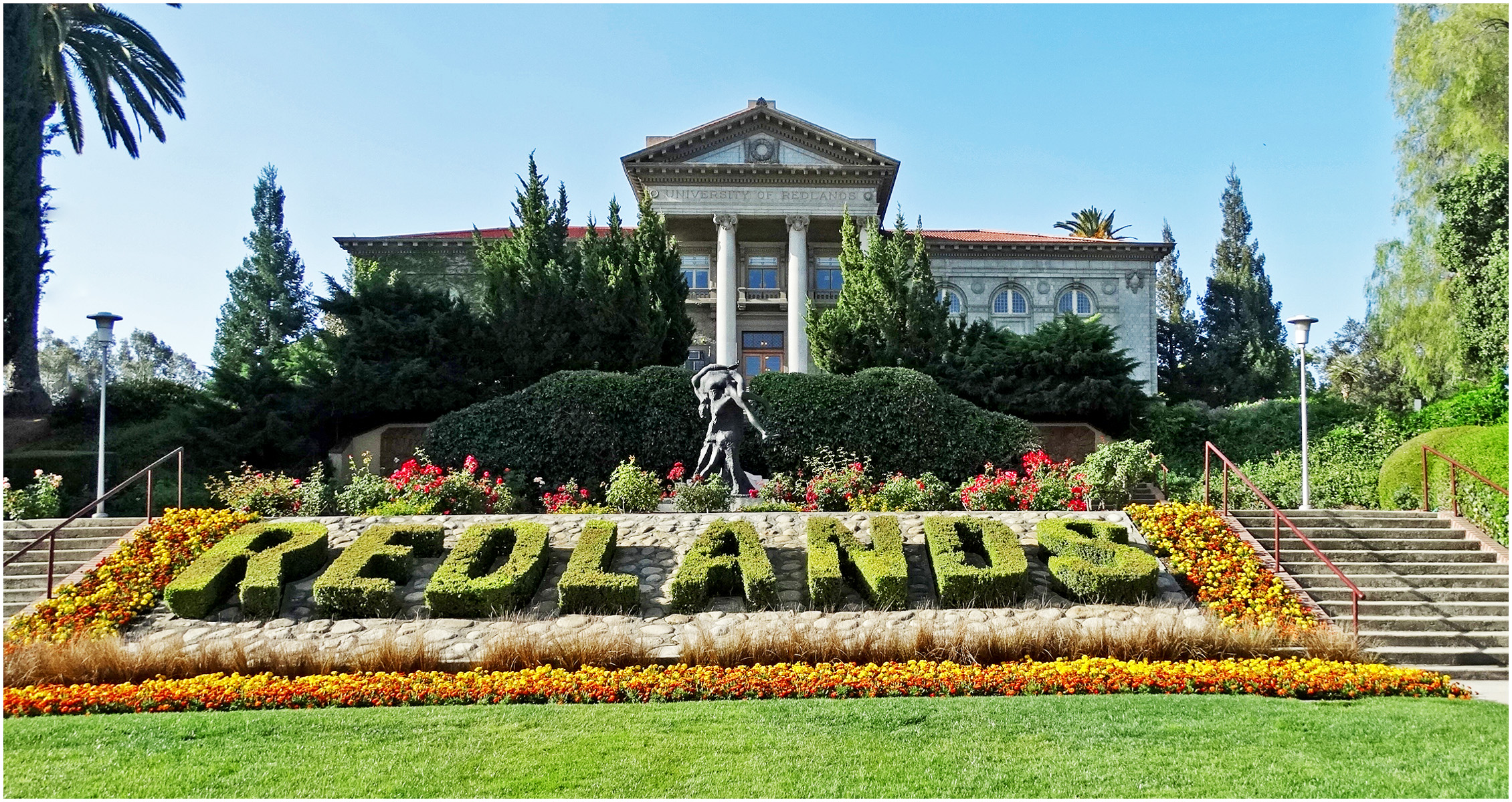 (1 in a multiple picture set) The grounds keepers at the O of R do a wonderful job with this garden that spells out the name of our town, Redlands, CA. (See next picture for a closer view.)